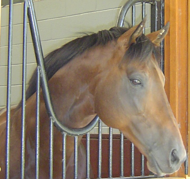 Rock of Gibraltar, a Champion racehorse and stallion owned by Coolmore.